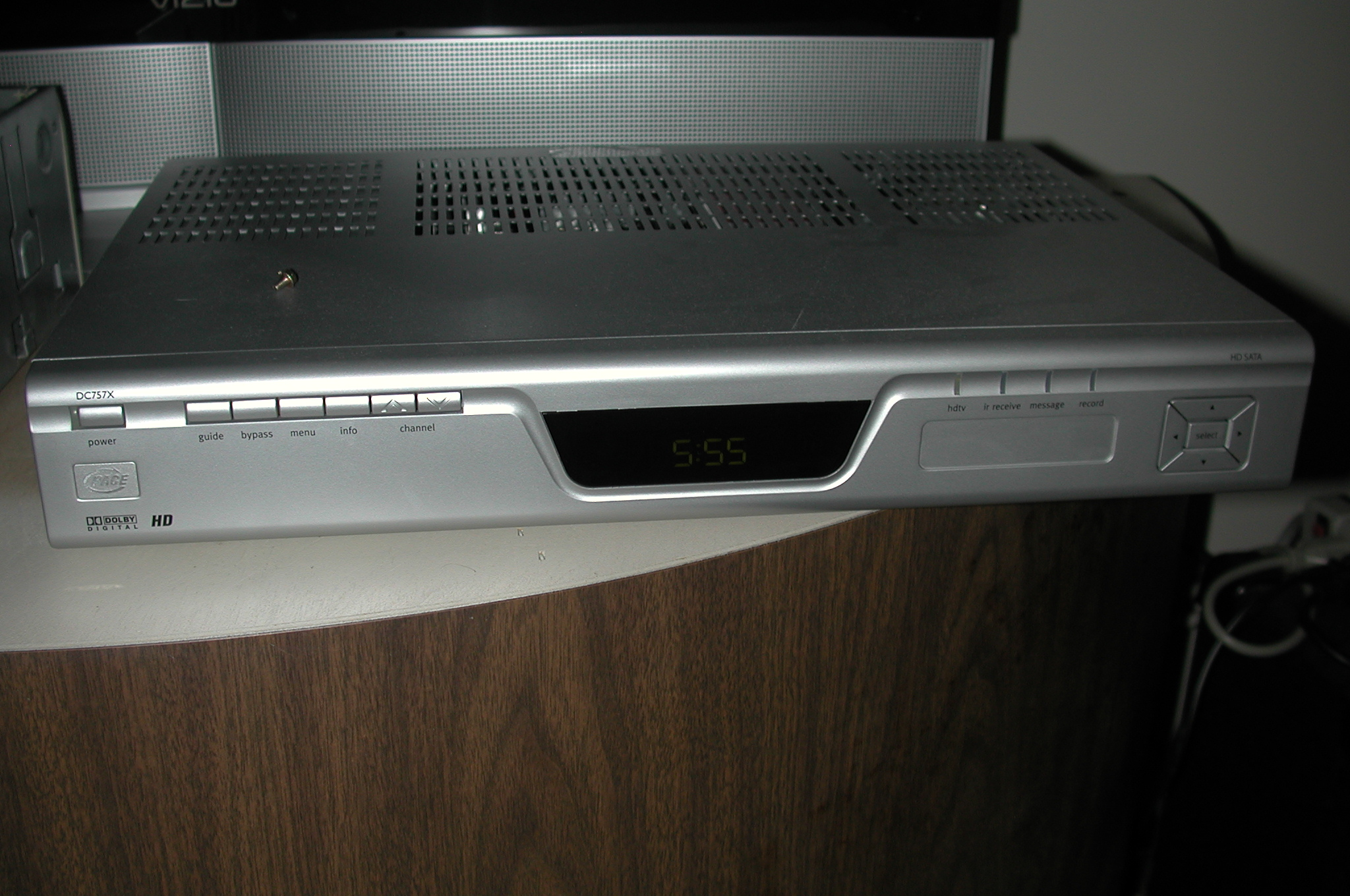 Pace DC757X HDMI HDTV cable box. Features eSATA port for DVR features.